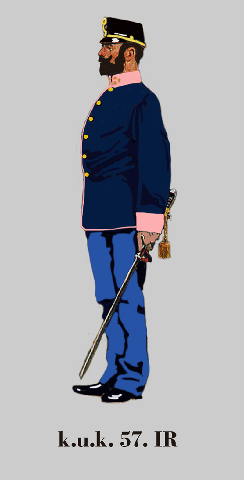 Captain of the Austria-Hungarian (k.u.k.). 57th german Infantry Regiment in Service dress 1914